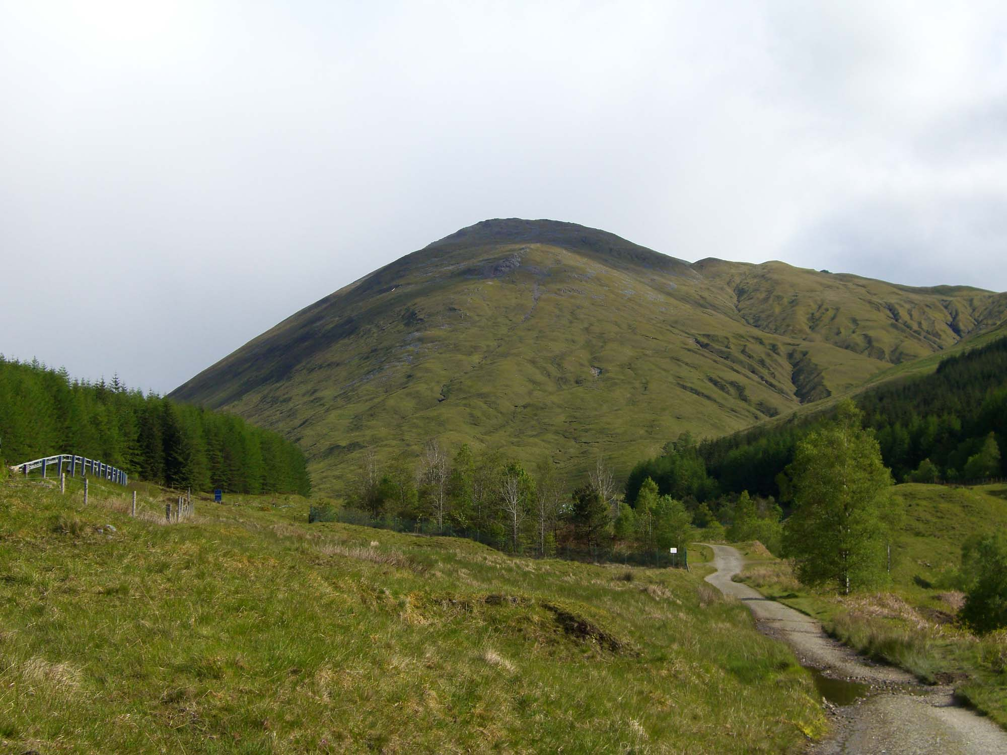 The mountain Beinn Odhar near Tyndrumm